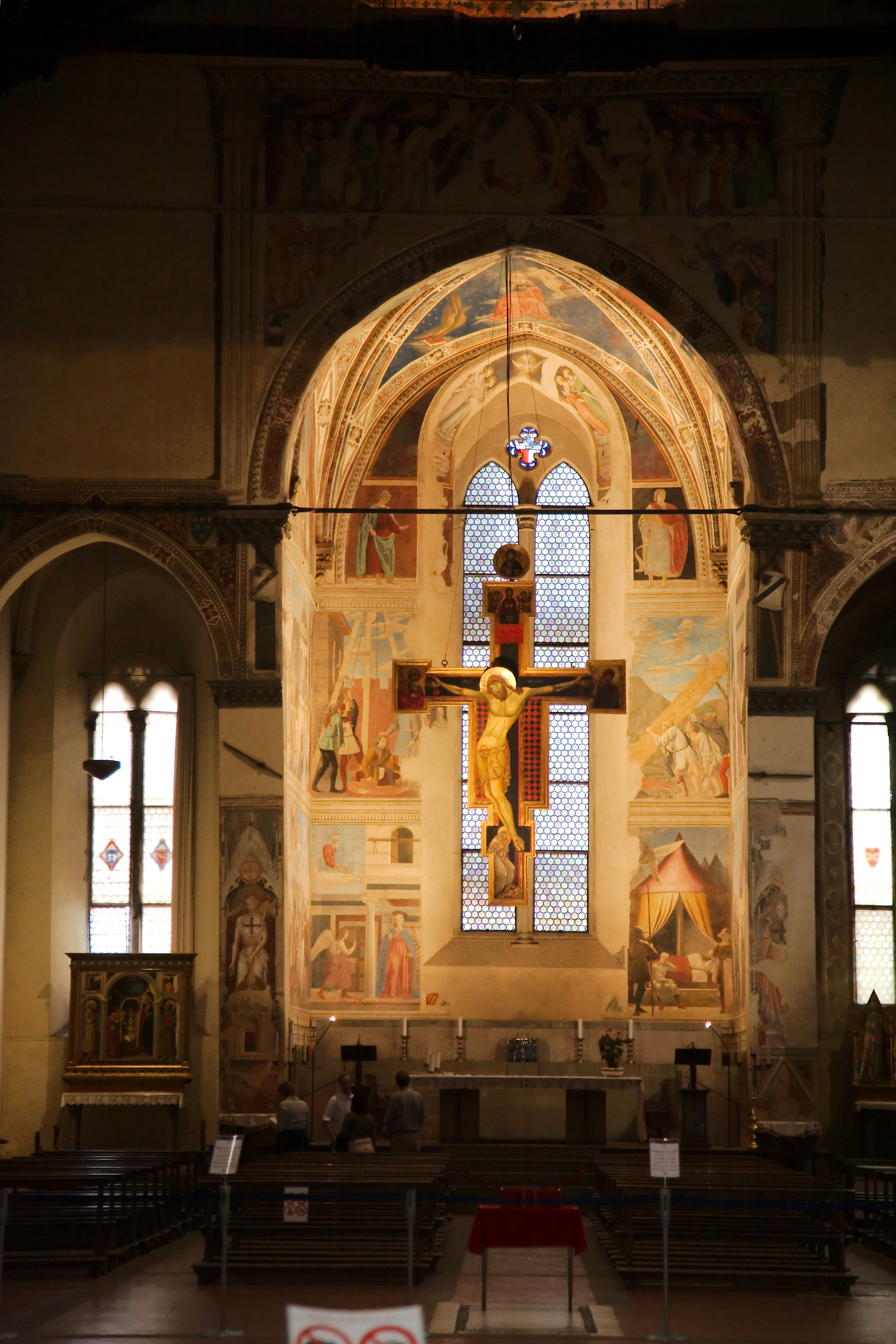 Cruxifix in San Francesco Arezzo